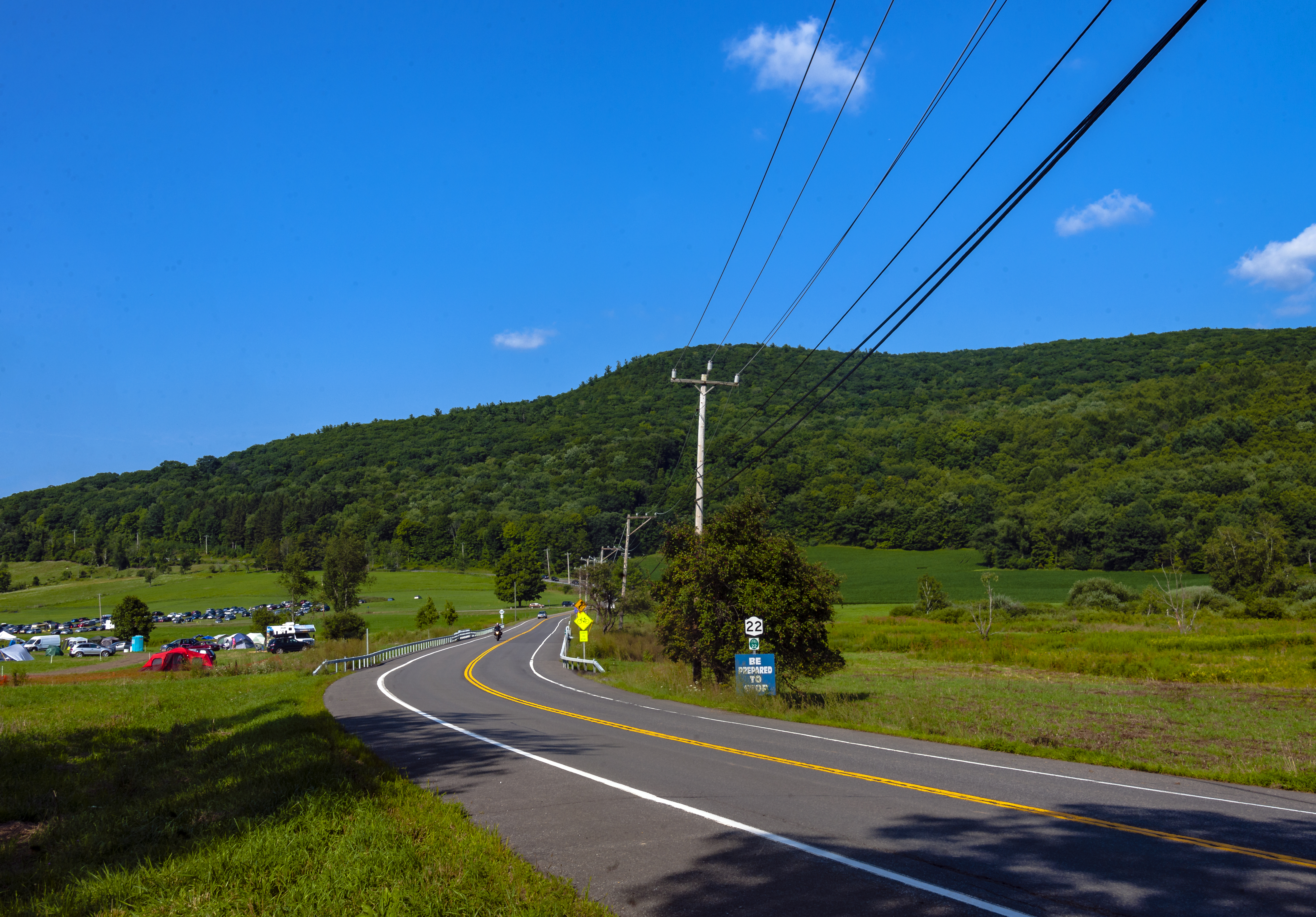 NY 22 winds through the clearing near North Hillsdale where the Falcon Ridge Folk Festival is being held